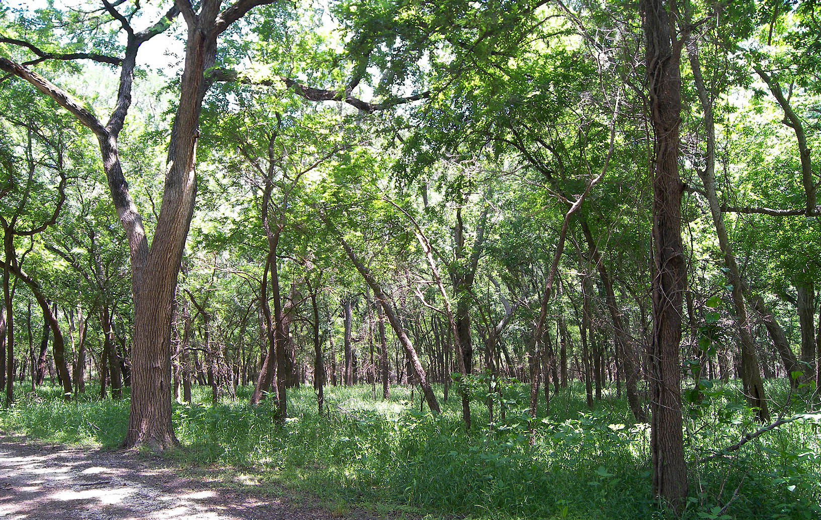 A woodland area in Mother Neff State Park in Coryell County, Texas, United States.